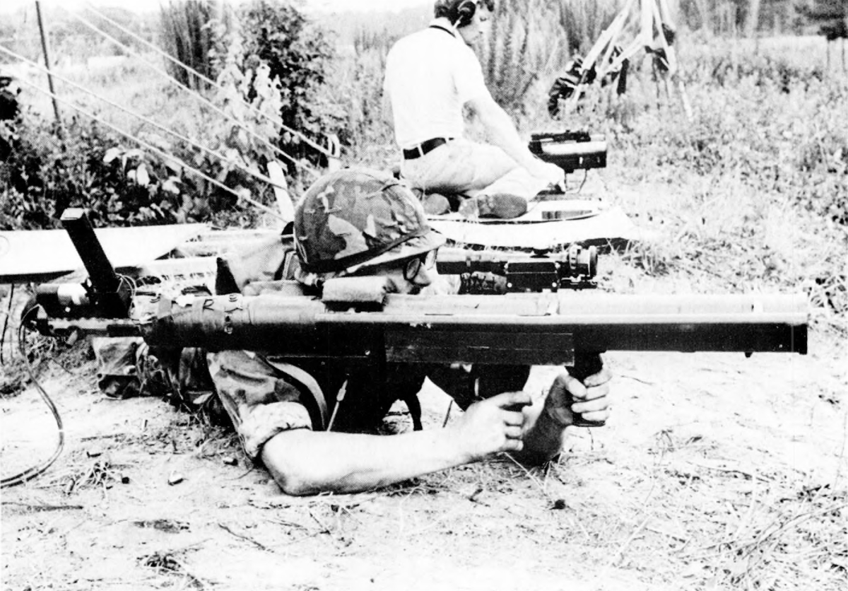 Marines test SMAW at Camp Lejuene